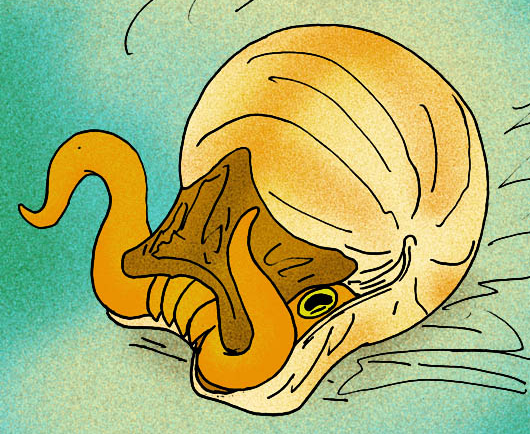 Cropped image of taxon in file name